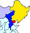 This map shows the territory controlled by the Hebei-Chahar Political Council (blue), the East Hebei Anti-Communist Autonomous Government (red), Manchukuo (yellow), and Mongolia (grey) at the end of 1935 and the beginning of 1936. As noted on Wikipedia, the Hebei-Chahar Political Council controlled the provinces of Chahar and Hebei except for the portion of Hebei Province occuped by the East Hebei Anti-Communist Autonomous Government, which, as noted by Paul French in The Old Shanghai A-Z and other sources, controlled the 22 northeastern counties of Hebei Province running along the Great Wall and south into the demilitarized zone almost as far south as Beijing and Tianjin. Although this is a crude map based off "File:ROC-Chahar.png", there are several articles in severe need of some sort of geographic illustration